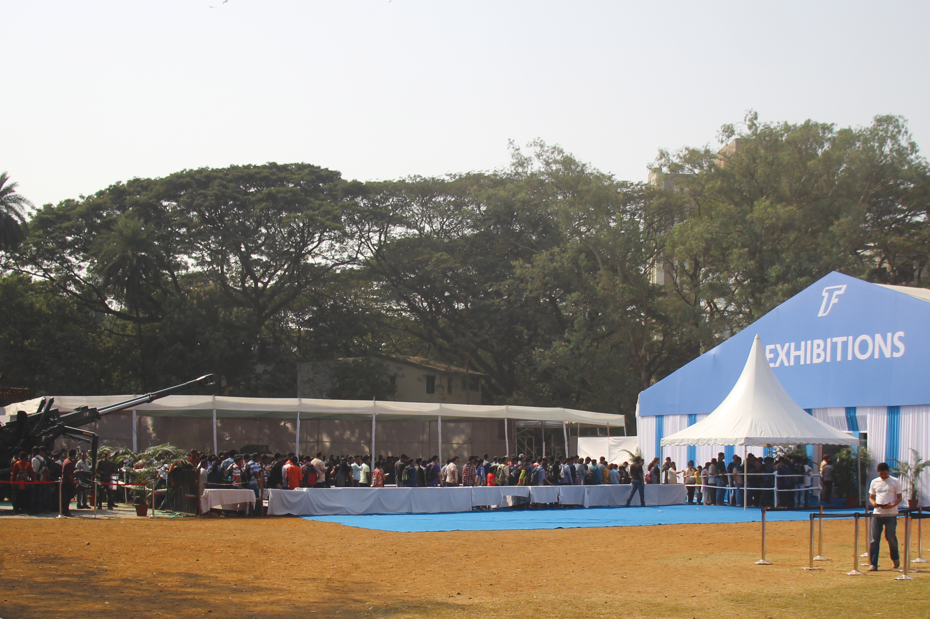 Queue for Techfest Exhibition 2016-2017